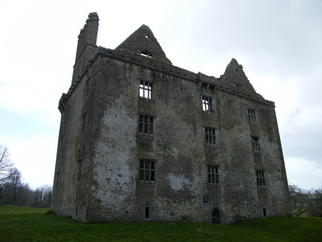 Glinsk Castle Glinsk Castle in County Galway, built c. 1620 for the Burkes.